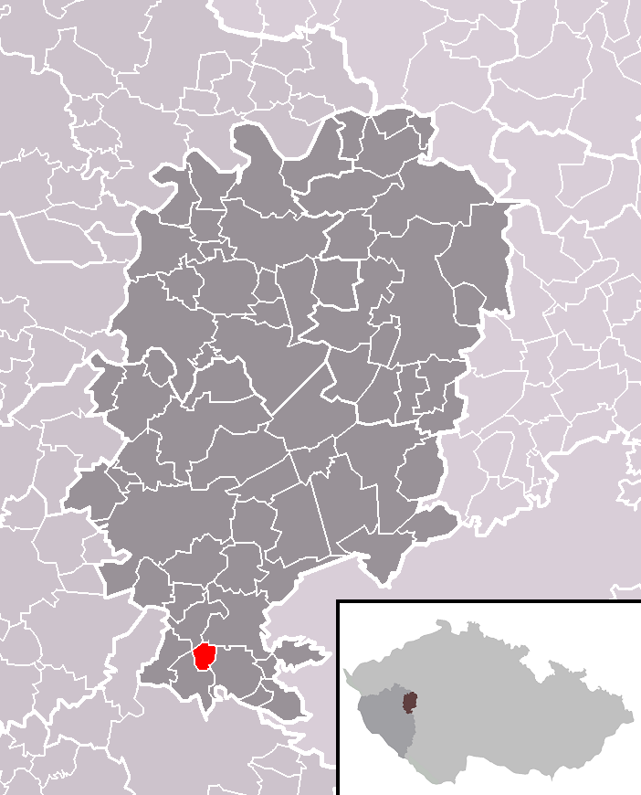 Location of Kakejcov municipality within Rokycany District and within identical administrative area of Rokycany as a Municipality with Extended Competence.